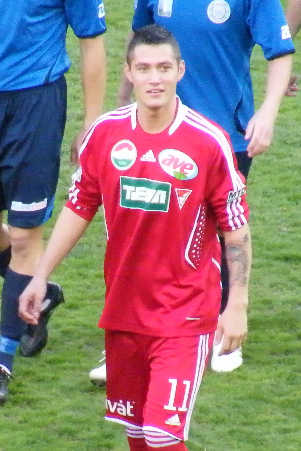 Róbert Feczesin Hungarian football player